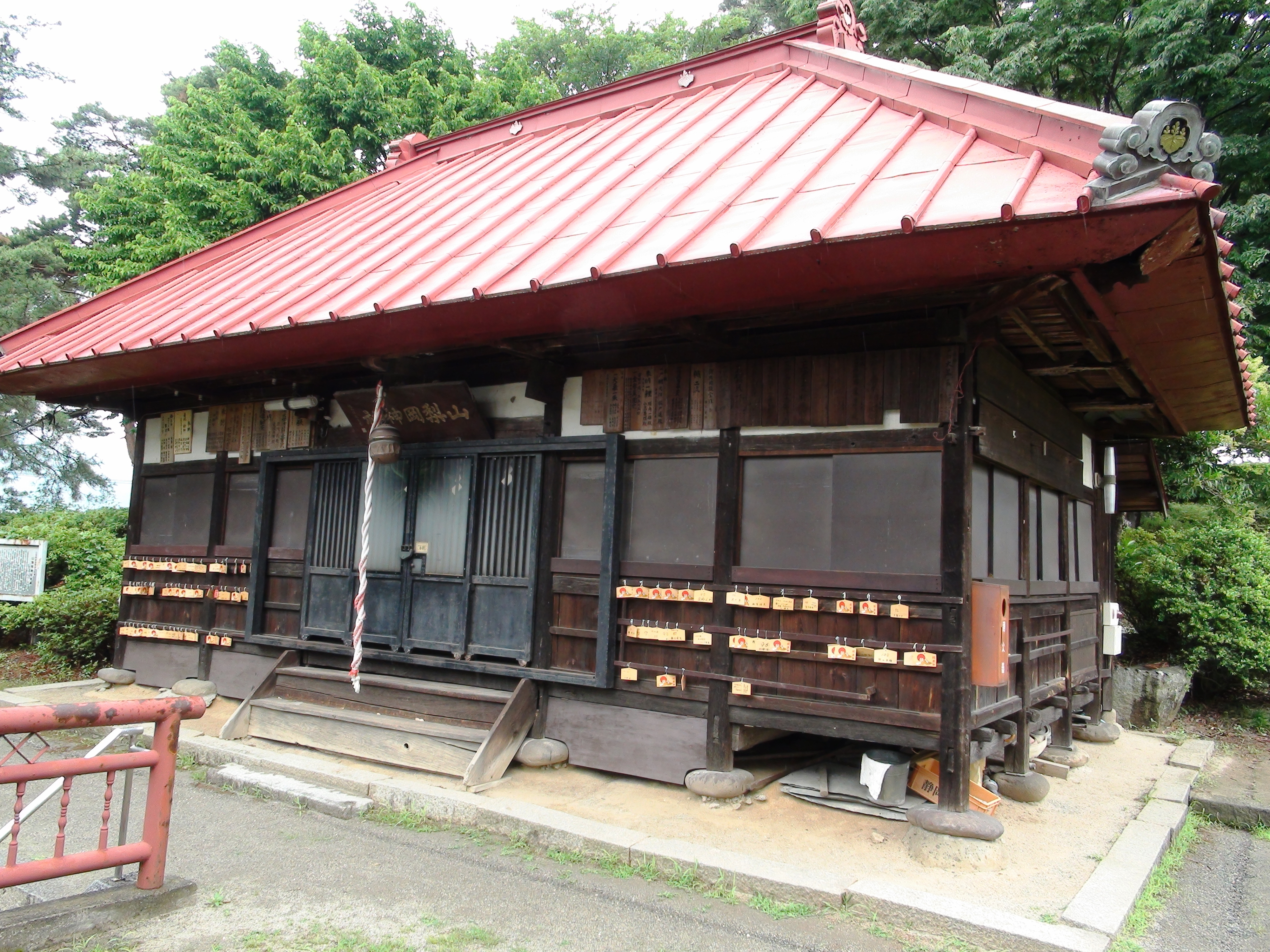 Yamanashioka shrine Yamanashi-City in the Mt.Ishimori